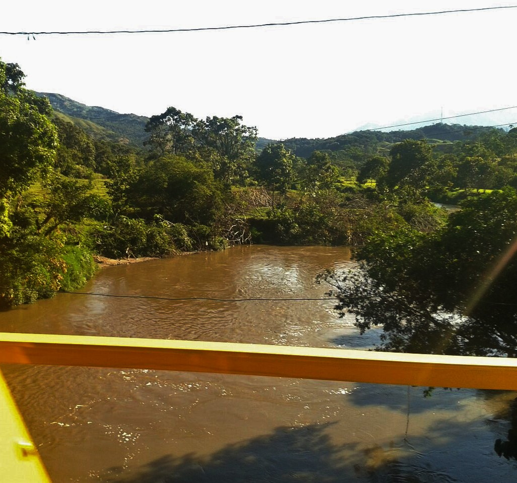 Río Porce, límite entre Santa Rosa de Osos y Santo Domingo